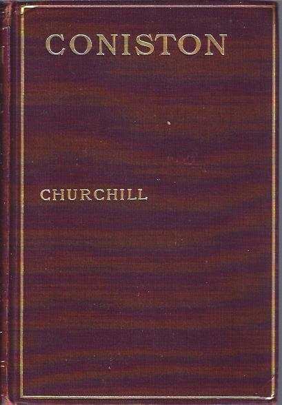 Cover of "Coniston" 1906 novel